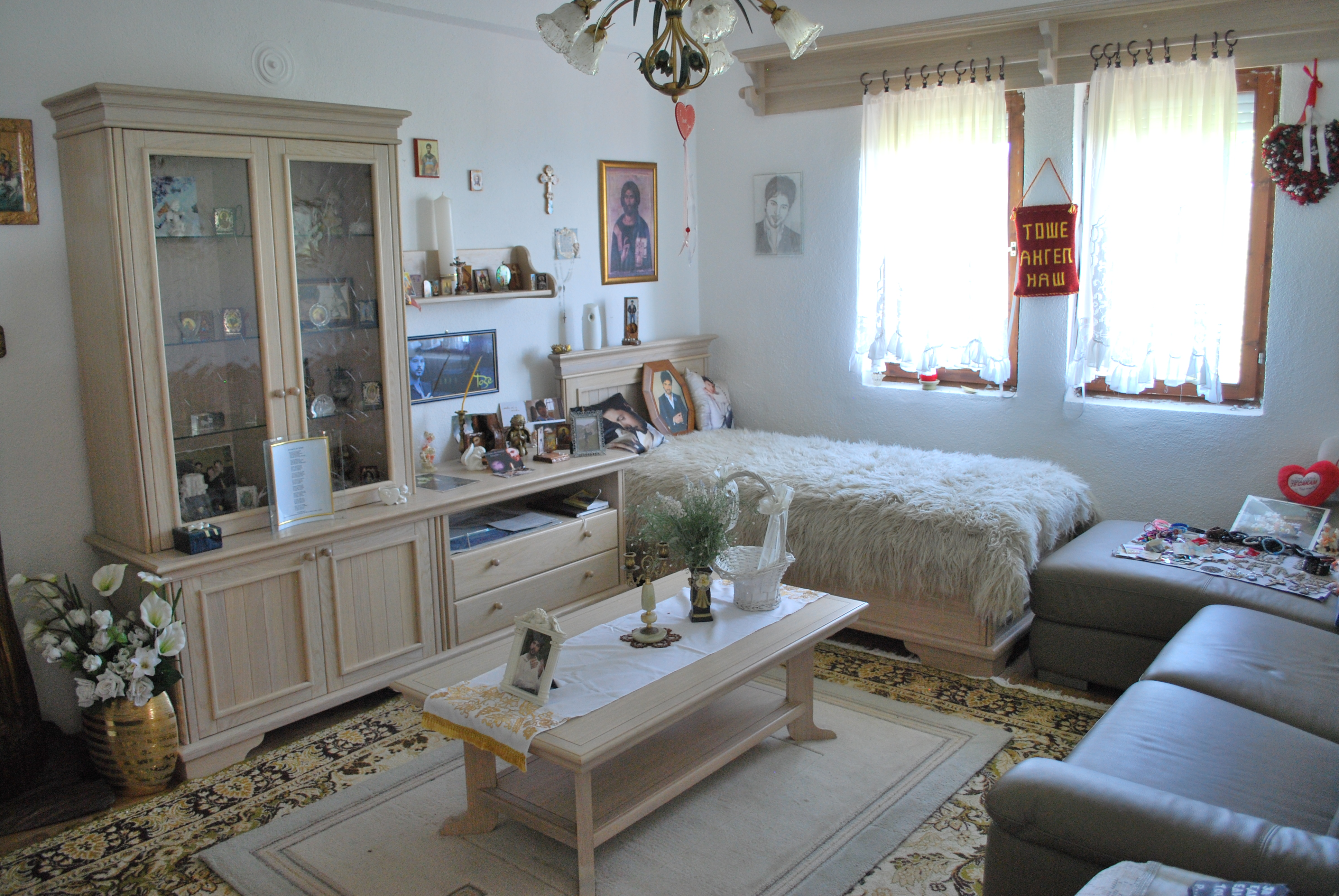 Memorial room of Toše proevski in Transfiguration Monastery in Kruševo, Macedonia